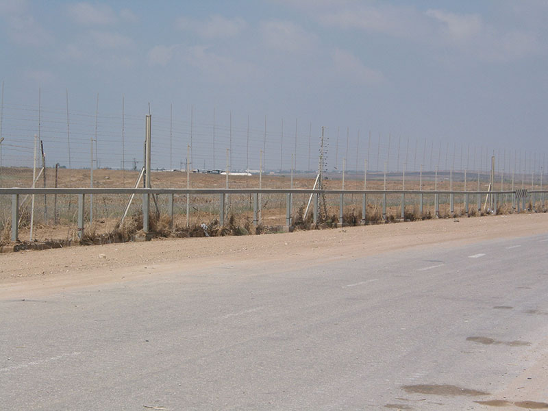 Photograph of the Israel-Border Gaza Strip Barrier near the Karni Crossing.